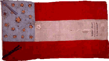 Original photograph of the JP Gillis Flag, flown by Constitutionalists over Sacramento, CA, ca 1861-1865.